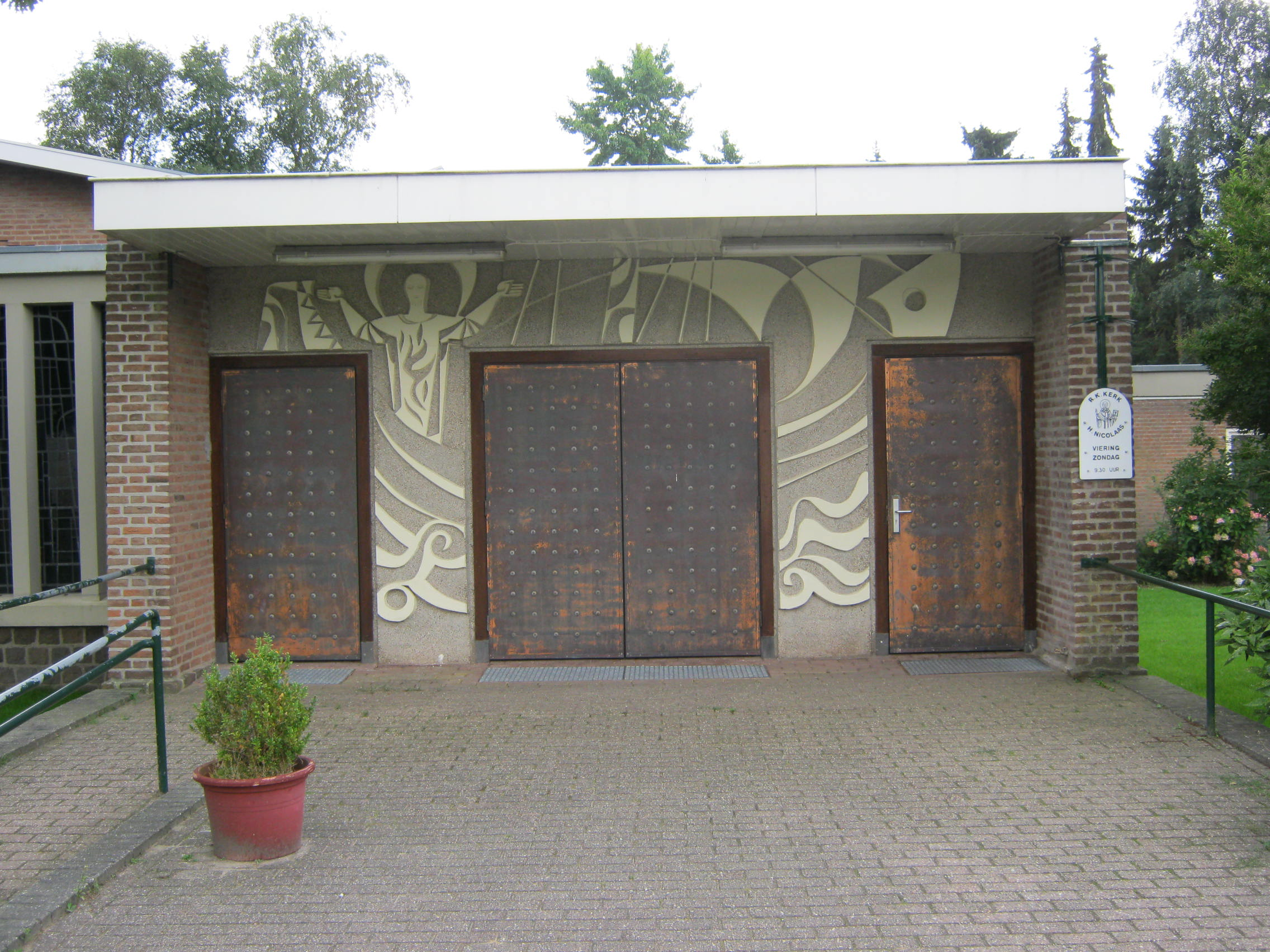 Parish Church of Saint Nicolas in Haren (Groningen, The Netherlands) main entrance